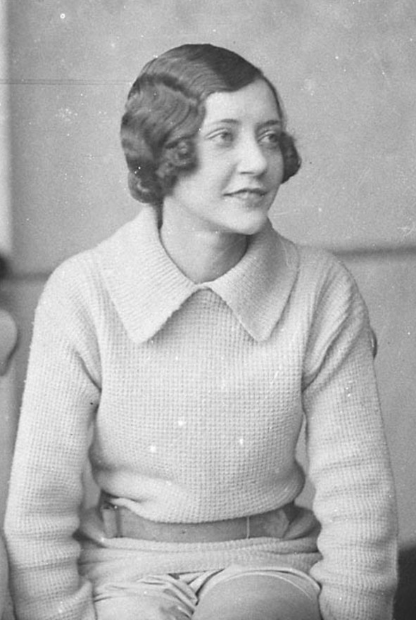 Two actresses, Jean Hart and Marie Burke